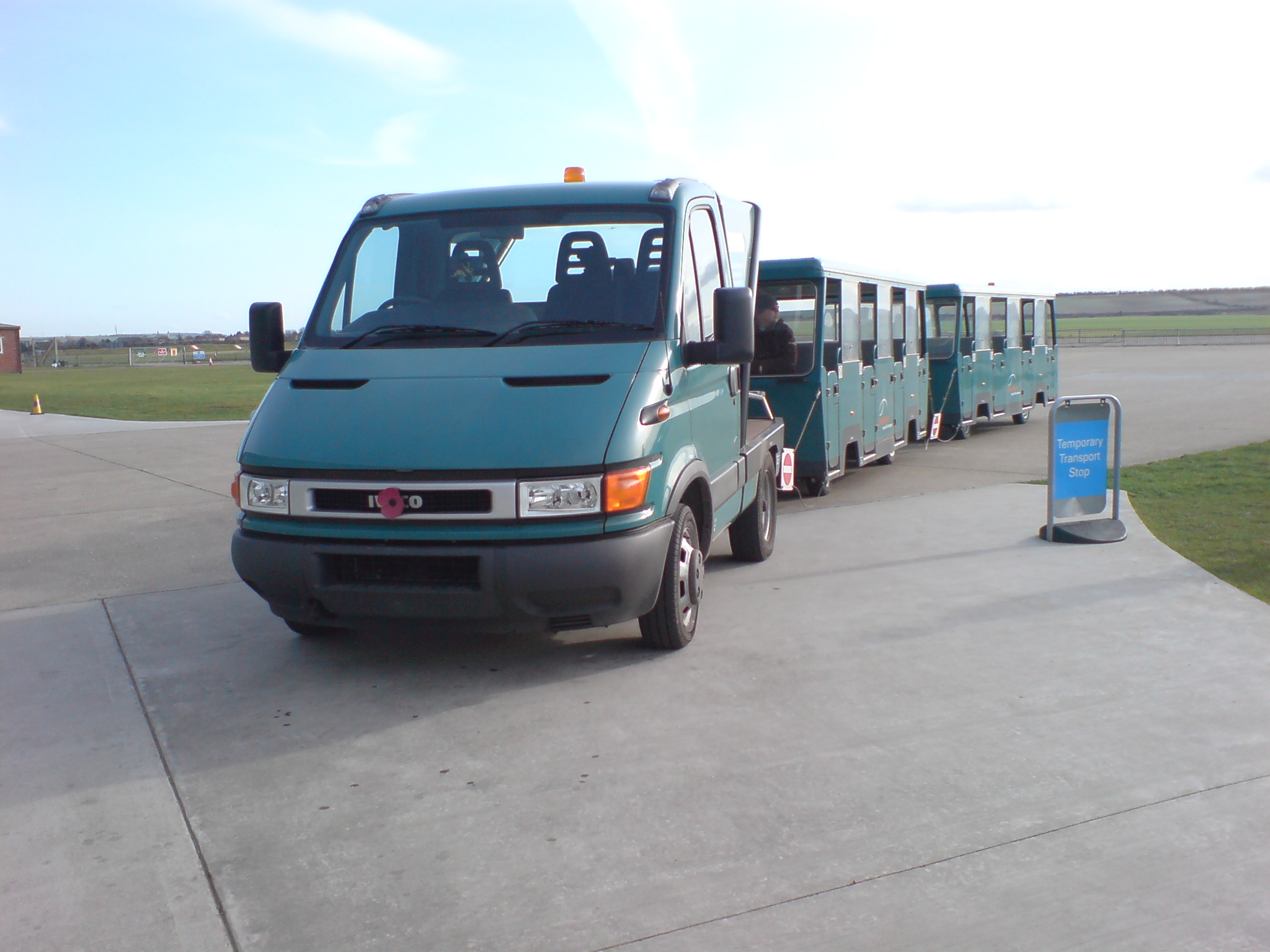 I took this image on Saturday, 2nd February 2008 at the IWM Duxford, using a 3.2 Megapixel Sony Ericsson Cybershot K800i specifically for uploading to Wikipedia. The Image is released into the public domain and can be used for what ever the user sees fit.